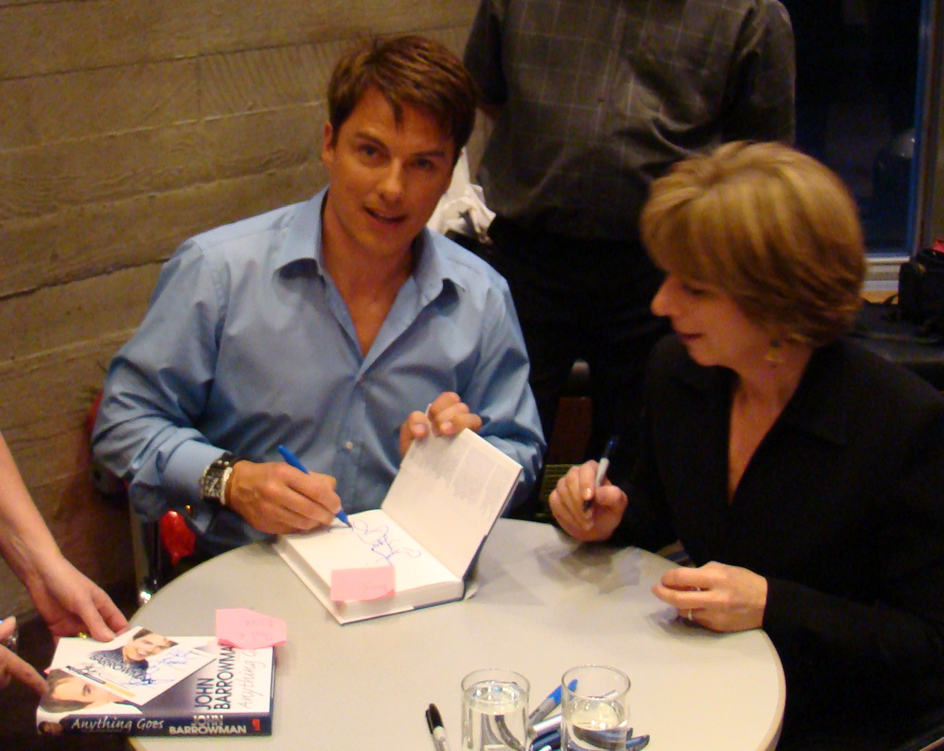 John Barrowman signing copies of his autobiography Anything Goes at the National Theatre in London (2008)